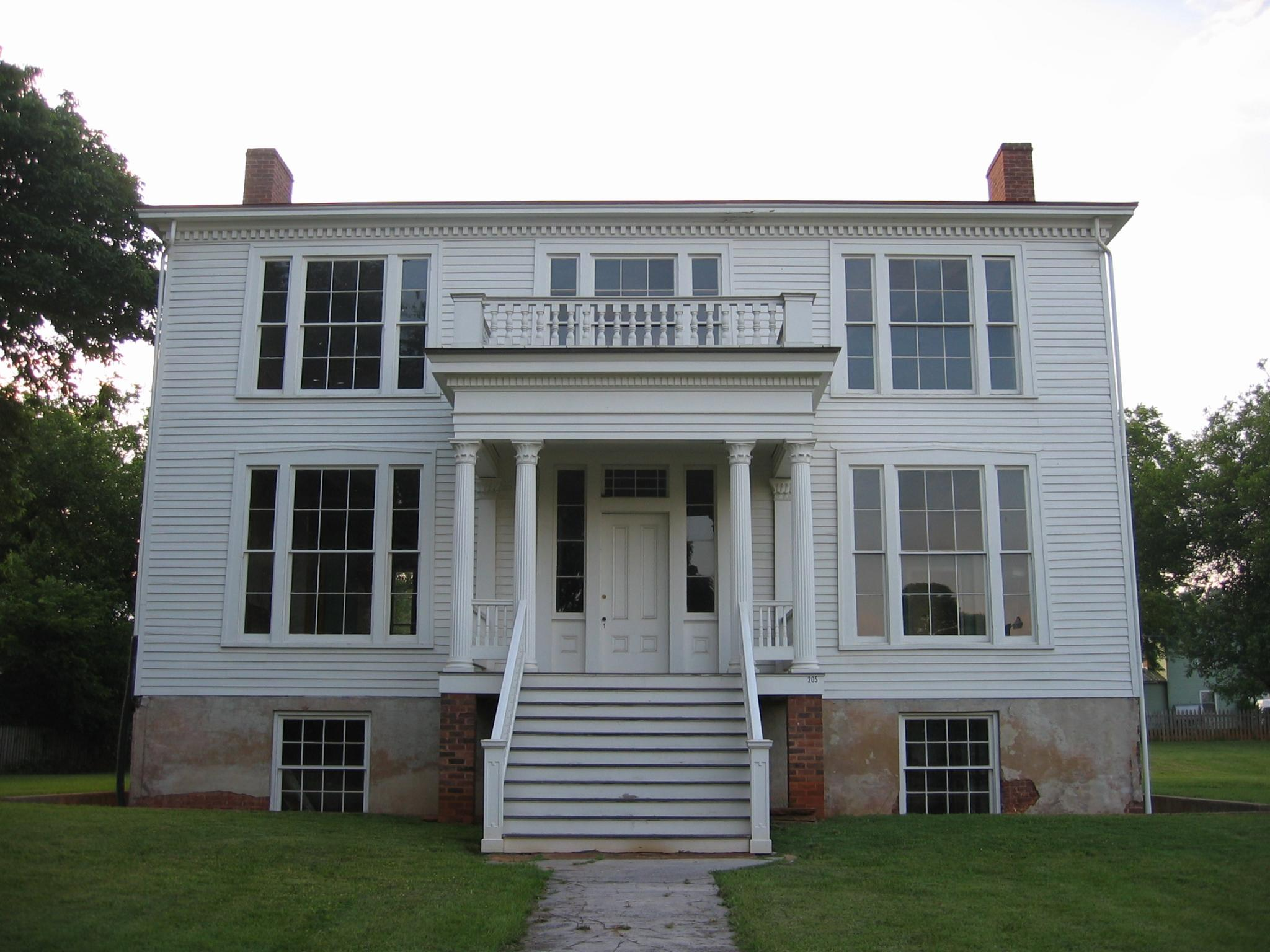 A view of the Rivermont House near dusk in Lynchburg, Virginia.